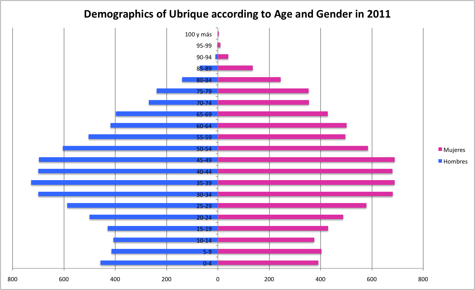 Population Pyramid (2011)